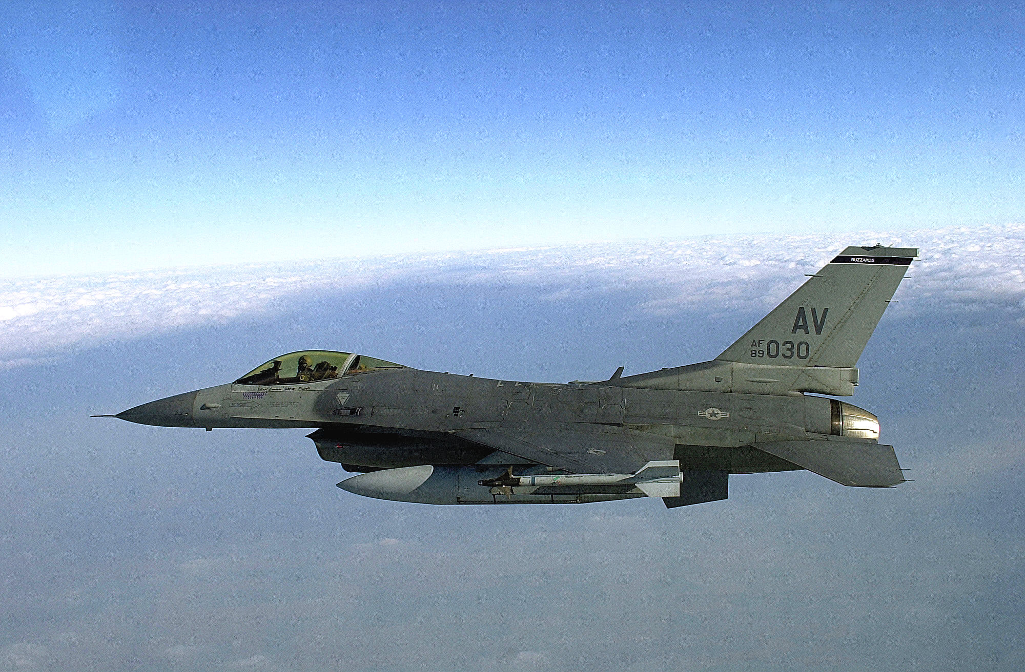 F-16C from 510th Fighter Squadron / 31st Fighter Wing (USAFE) in Feb 2001